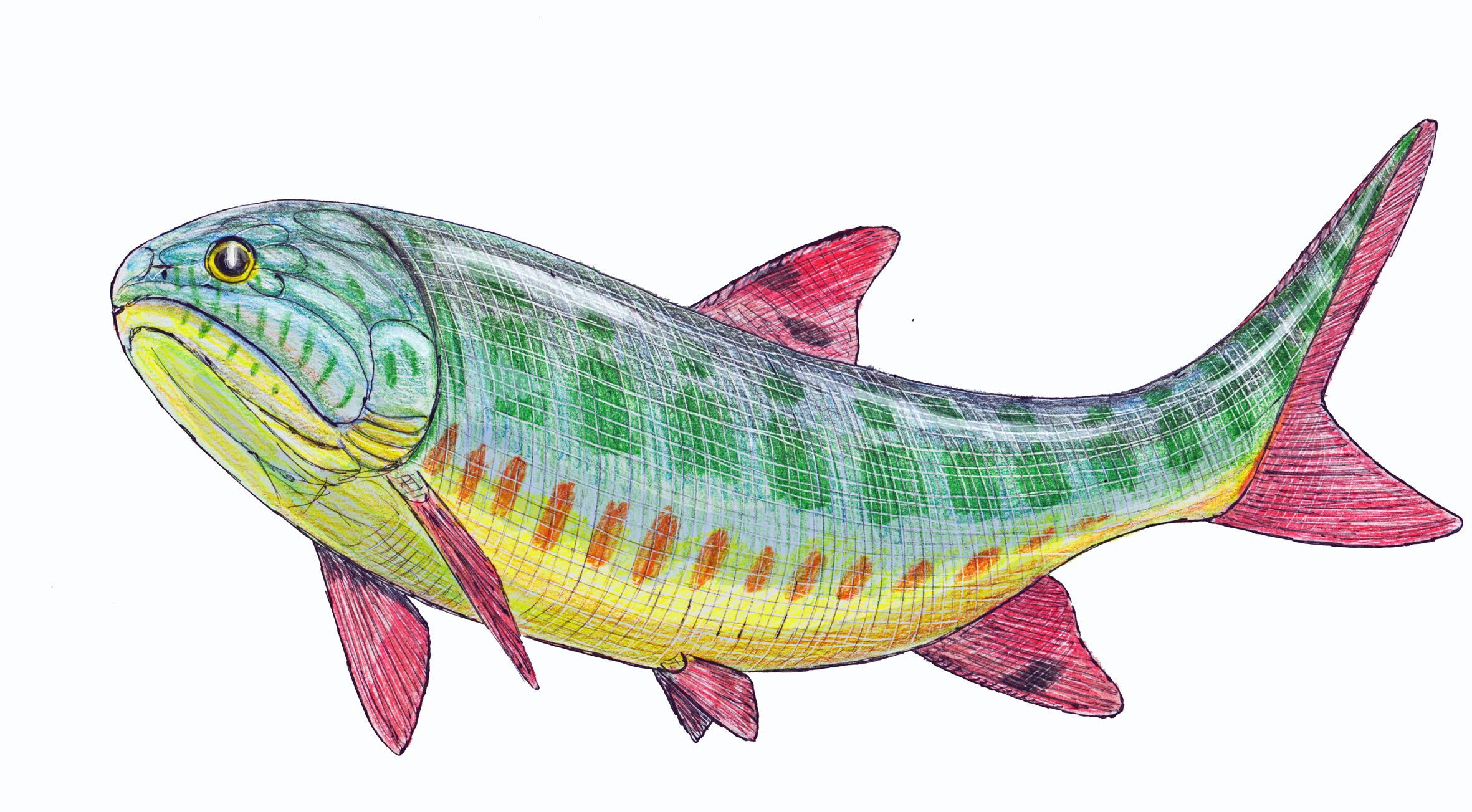 Acrolepis gigas, predaceous Paleonisciform from Late Carboniferous of Bohemia